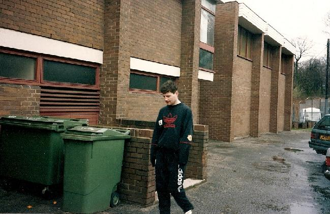 Denis Irwin at Manchester United's training ground in 1992